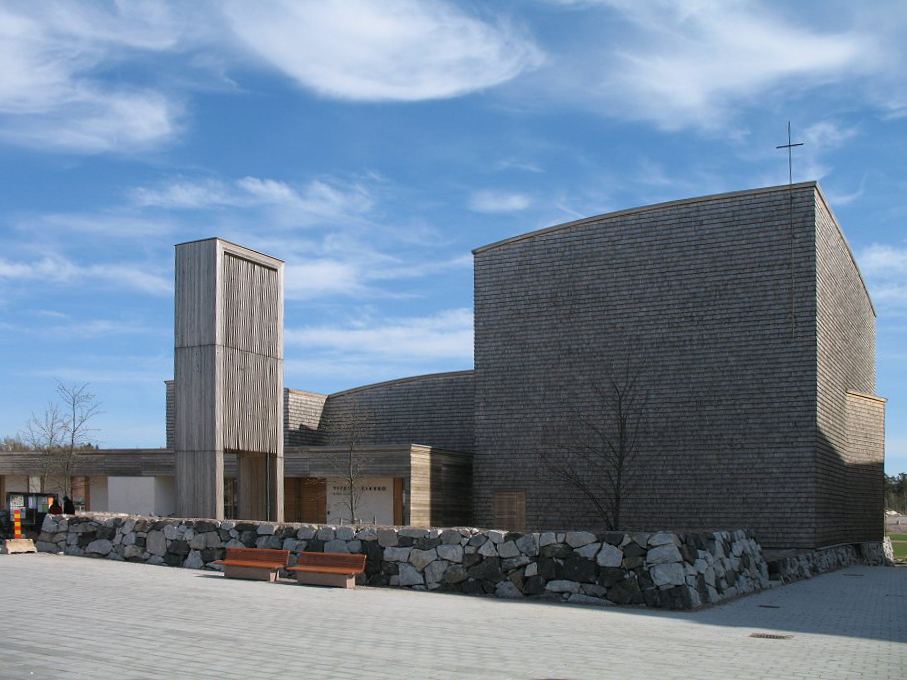 Viikki Church, photo 1, situated in the Viikki district of Helsinki, Finland